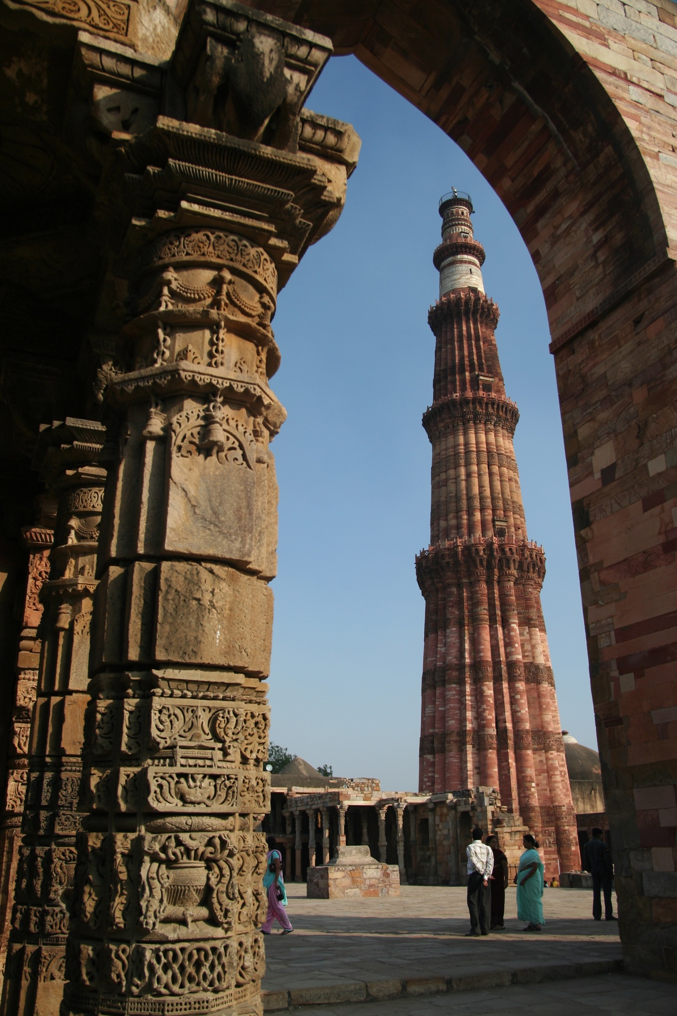 Qutb Minar from the Quwwuatul ul-Islam mosque, Qutb complex.